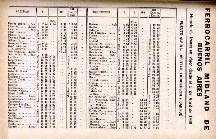 Schedule of the BA Midland Railway's Puente Alsina-Carhué line.